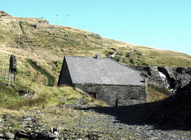 Old power house at Llechwedd Quarry Water was piped to this generating house by leat (right) and by pipeline (left) from Llynnau Bowydd SH7246 and Newydd SH7247. Water reaching the quarry by leat and pipe is now stored in two reservoirs at the top of the quarry.